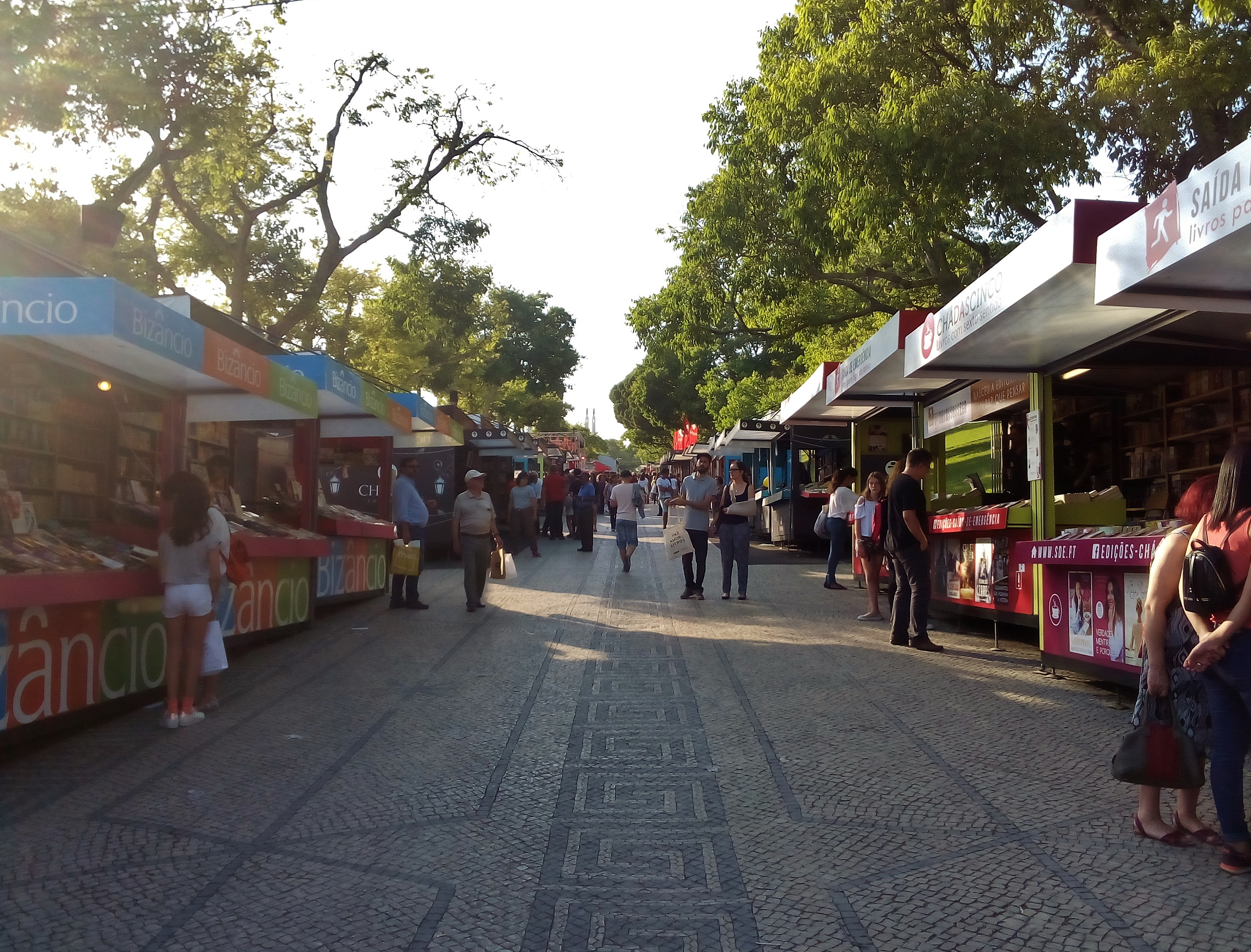 87th Annual Lisbon Book Fair, June 2017.